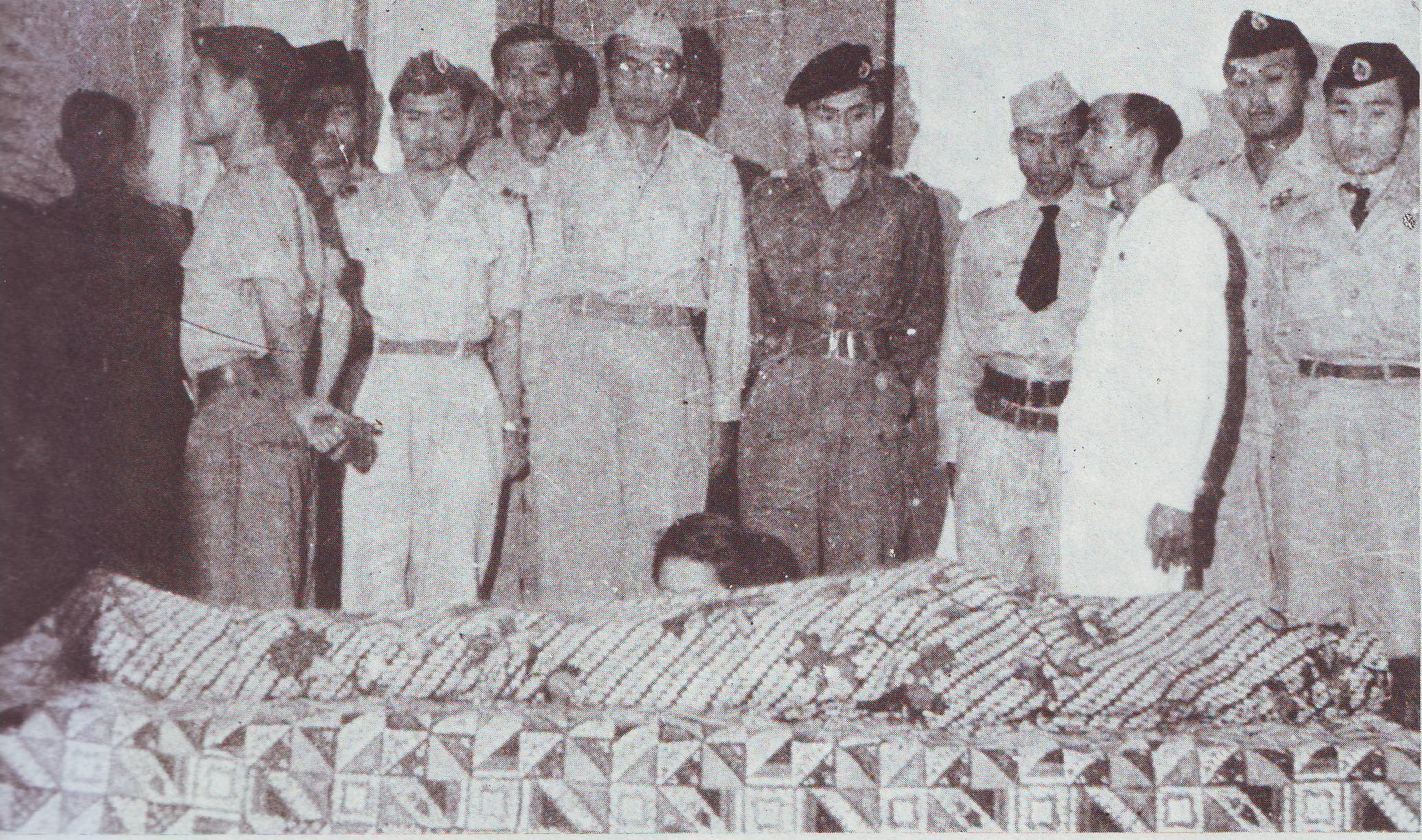 Indonesia state officials paid tribute to late General Sudirman that passed away in January 29, 1950.